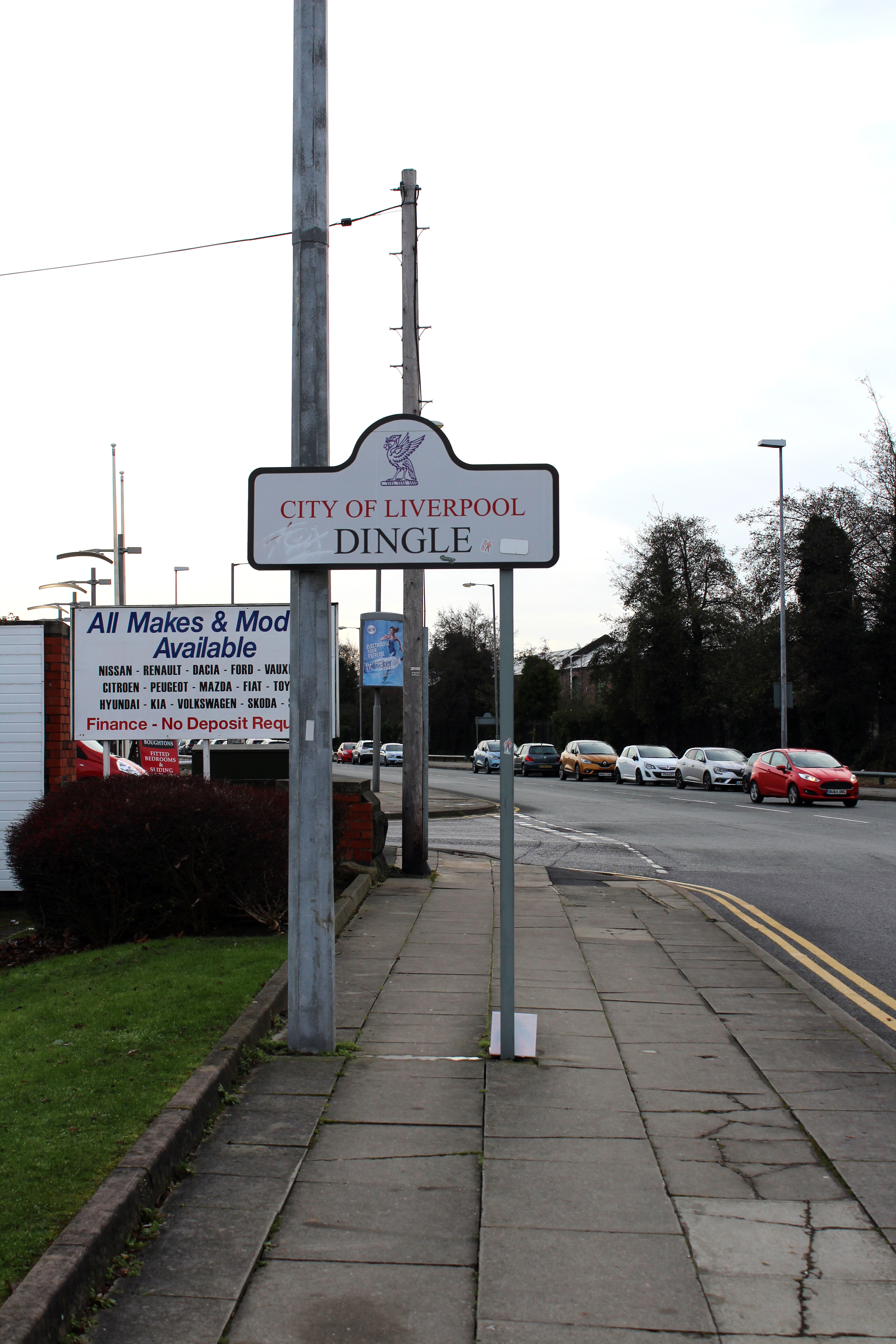 Dingle sign on Sefton Street.near Park Street.